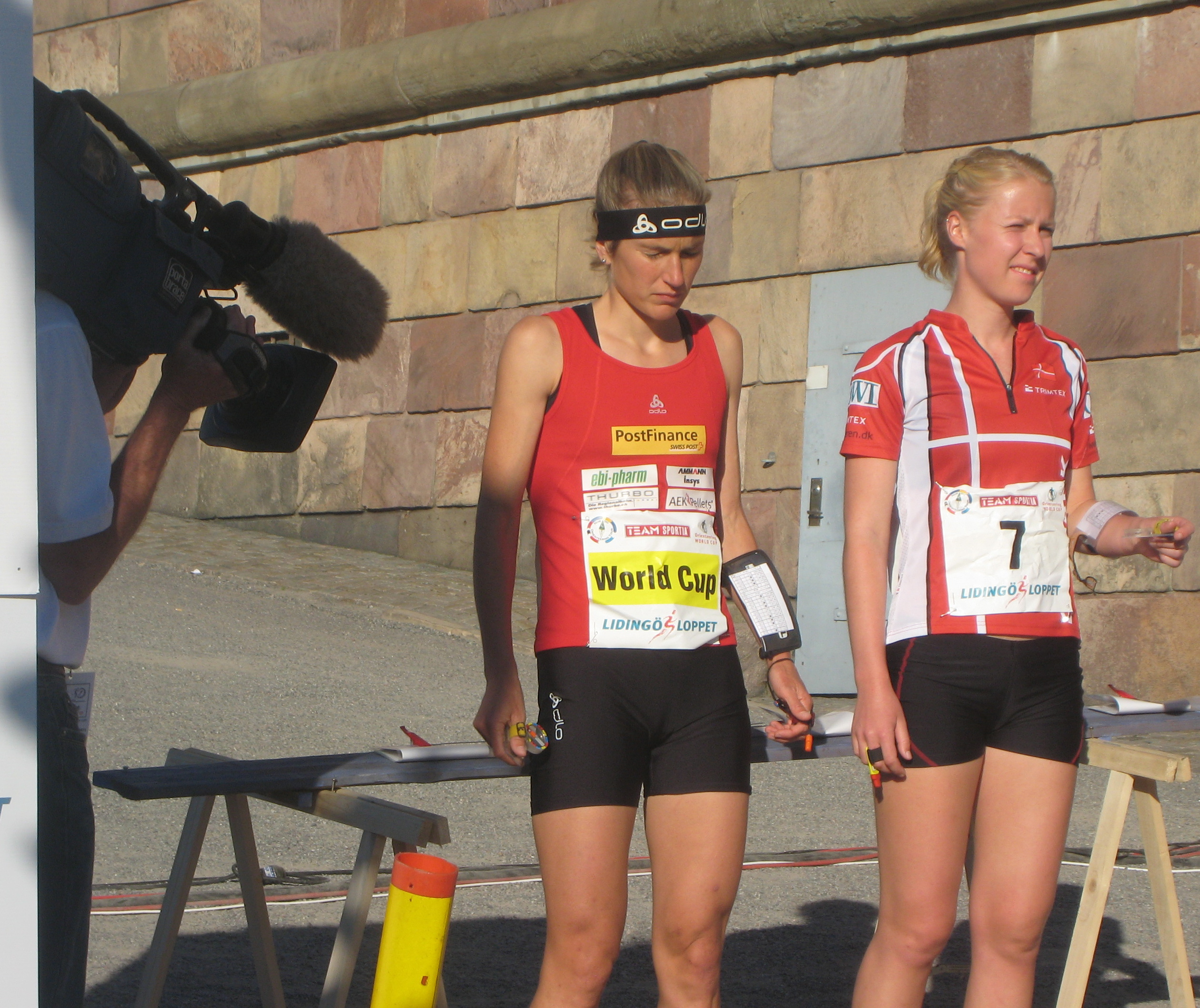 Simone Niggli and Maja Alm in Stockholm, 22 june, during Nordic Orienteering Tour.